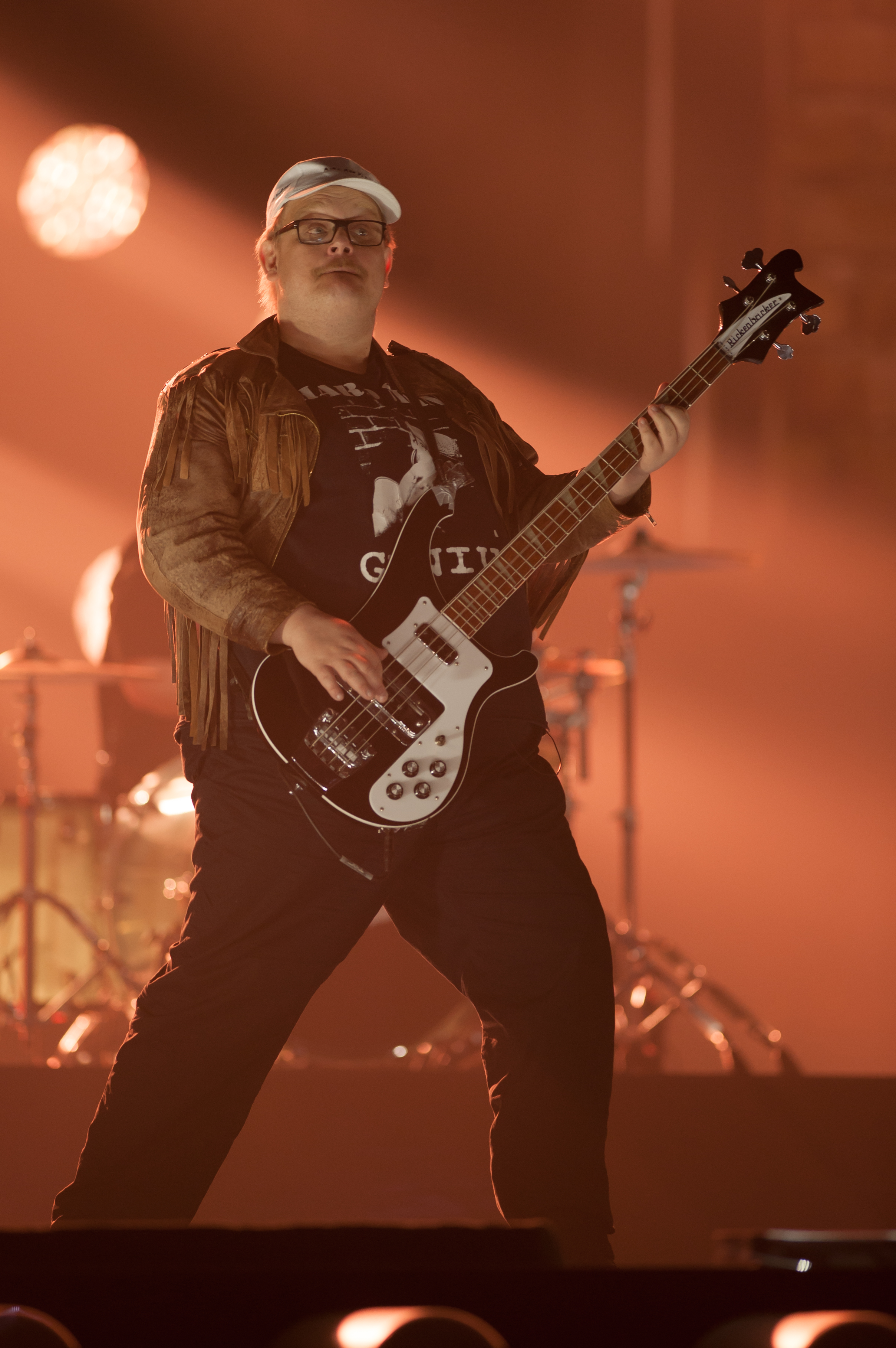 Eurovision Song Contest Vienna 2015: Pertti Kurikan Nimipäivät